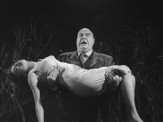 Tor Johnson portraying dead Inspector Clay raised again by an alien race to fulfil their evil plans of conquering the Earth, In Ed Wood's cult movie Plan 9 From Outer Space.